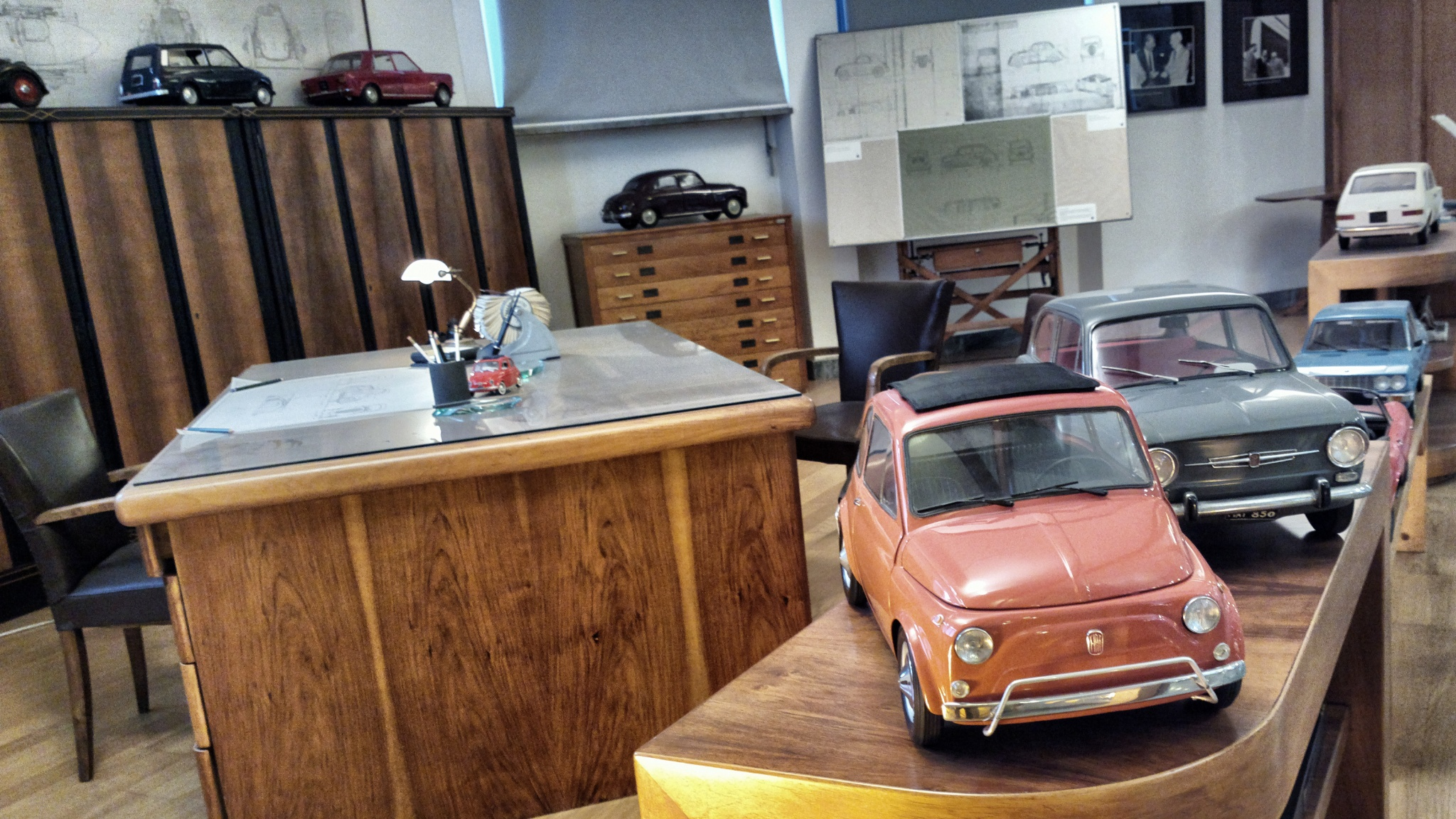 Studio Dante Giacosa Centro Storico Fiat